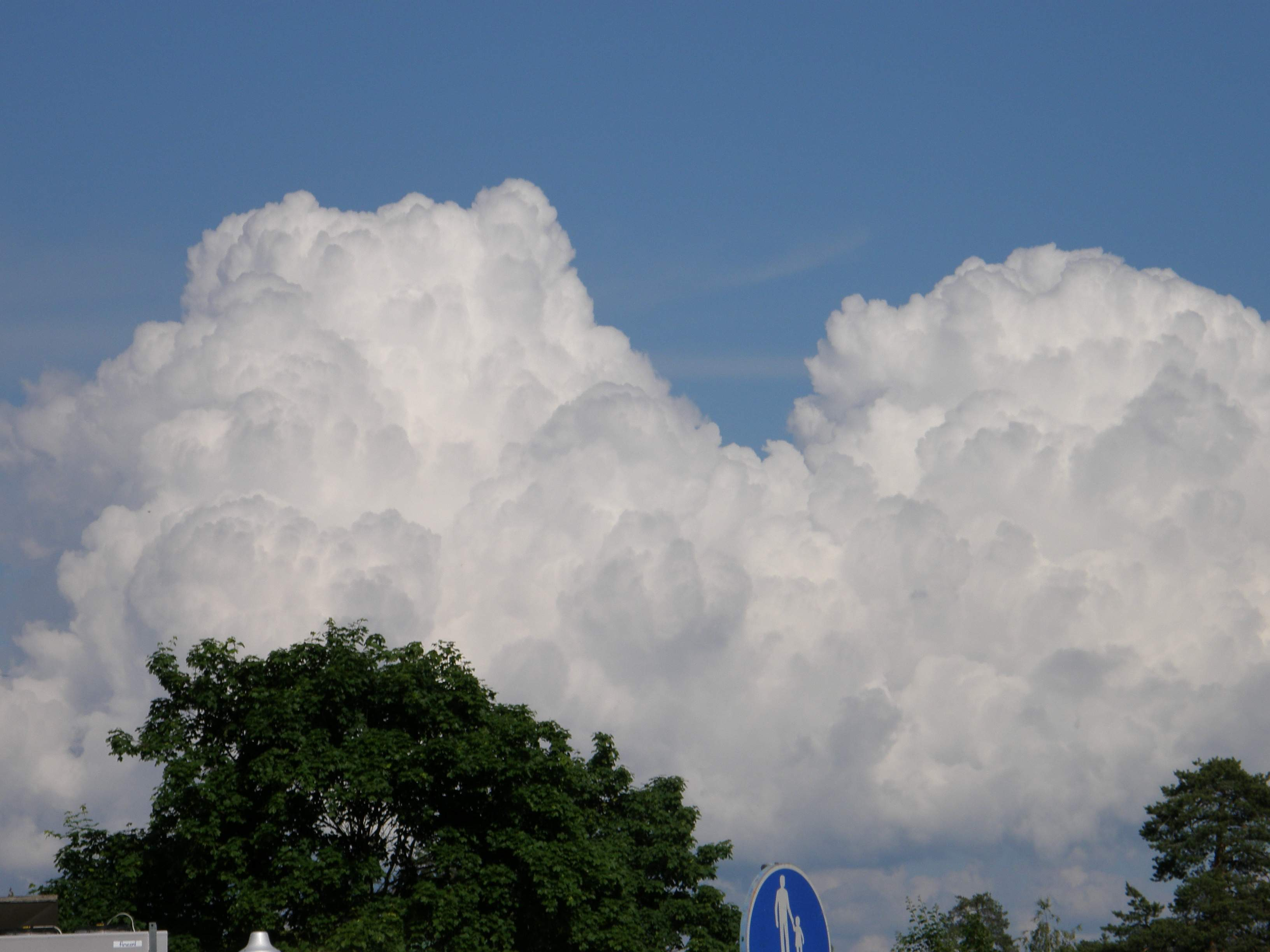 Big Cumulus congestus cloud on summer sky. It has some castellanus like outlook. It predicts maybe thunderstorms within two hours.